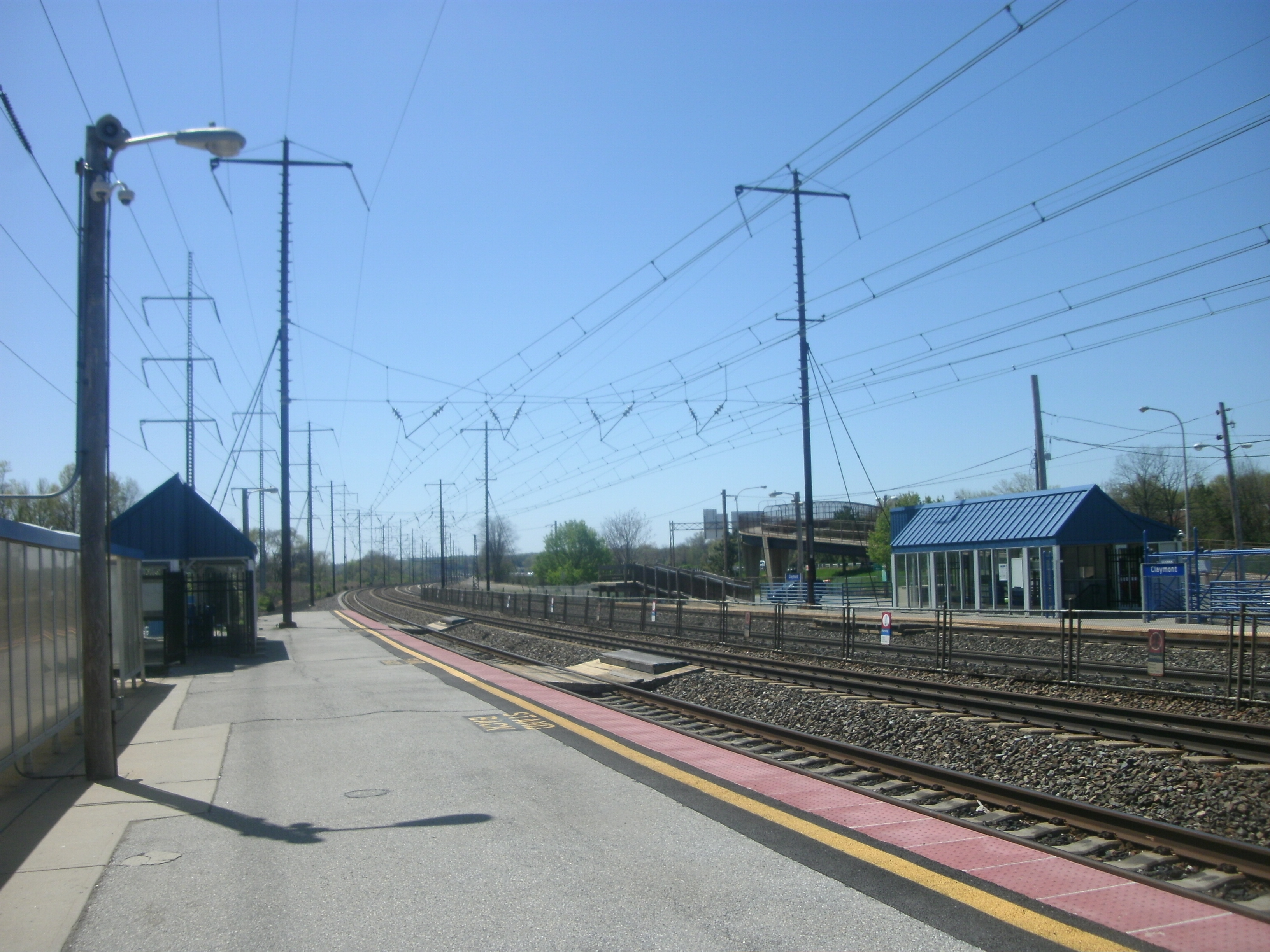 SEPTA's Claymont station as seen facing Wilmington-bound from the Philadelphia-bound platform.